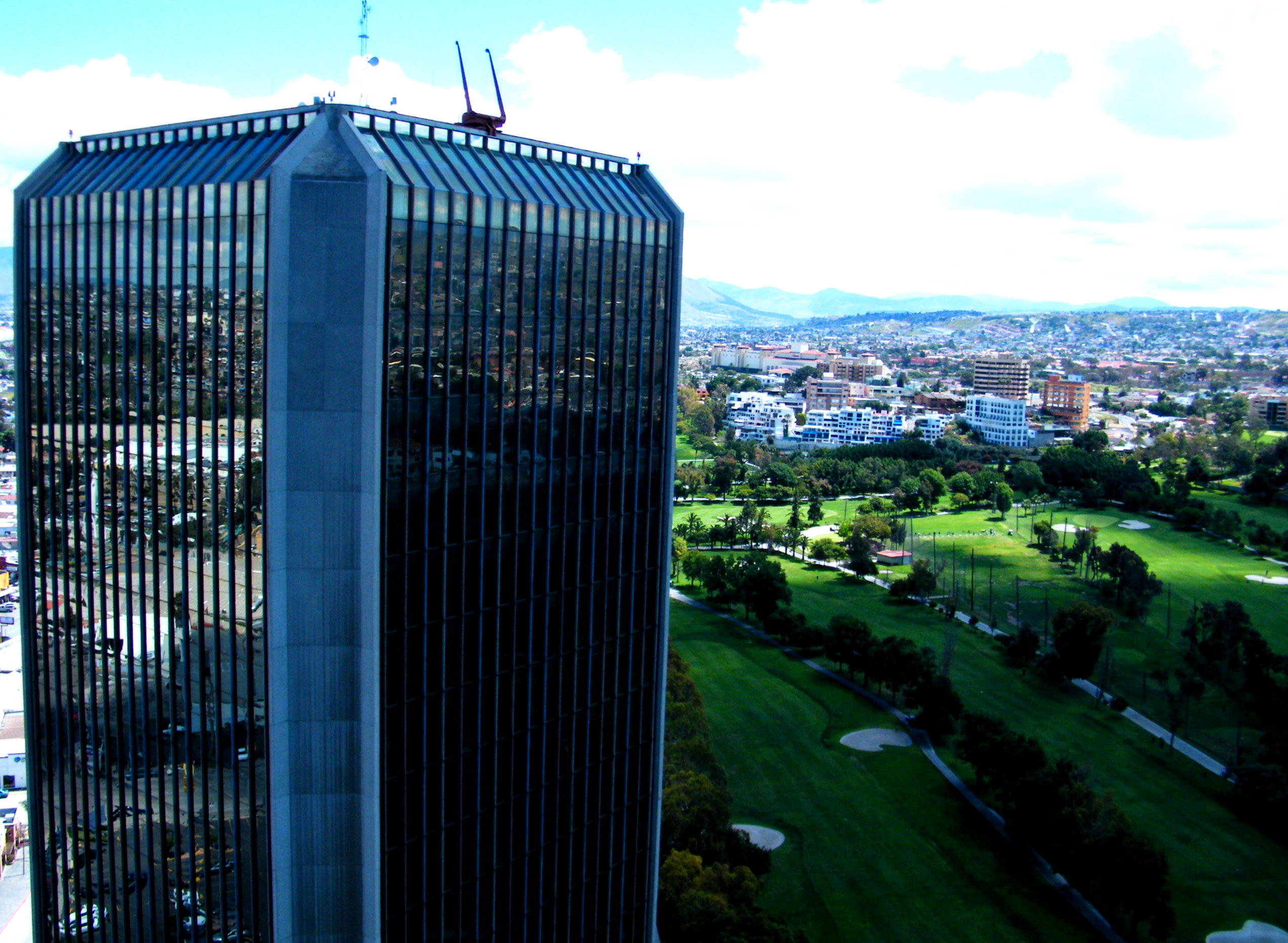 Grand Hotel Tijuana and Tijuana Country Club Golf Course